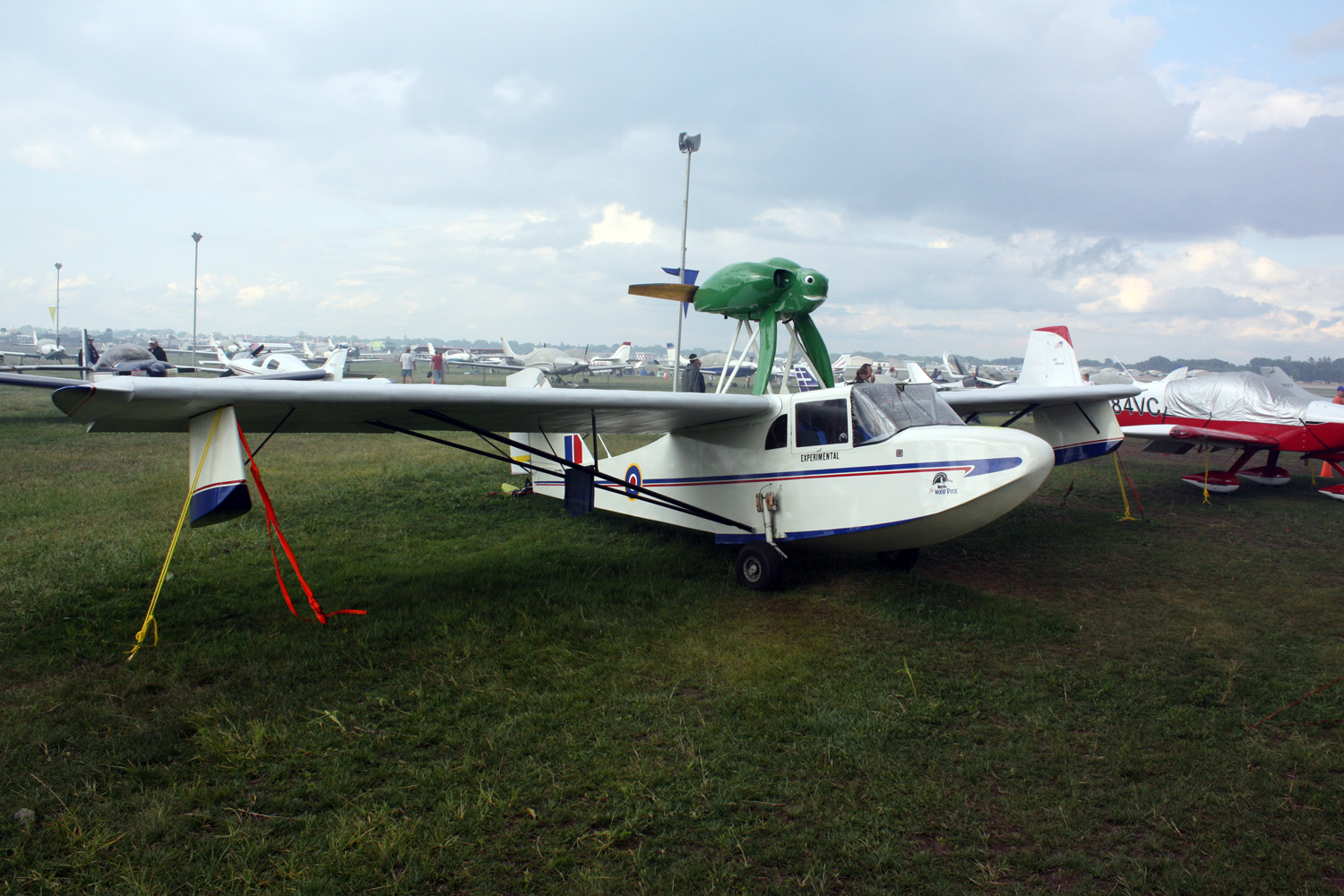 Volmer Sportsman N3125B Airventure 2009 Oshkosh, Wisconsin